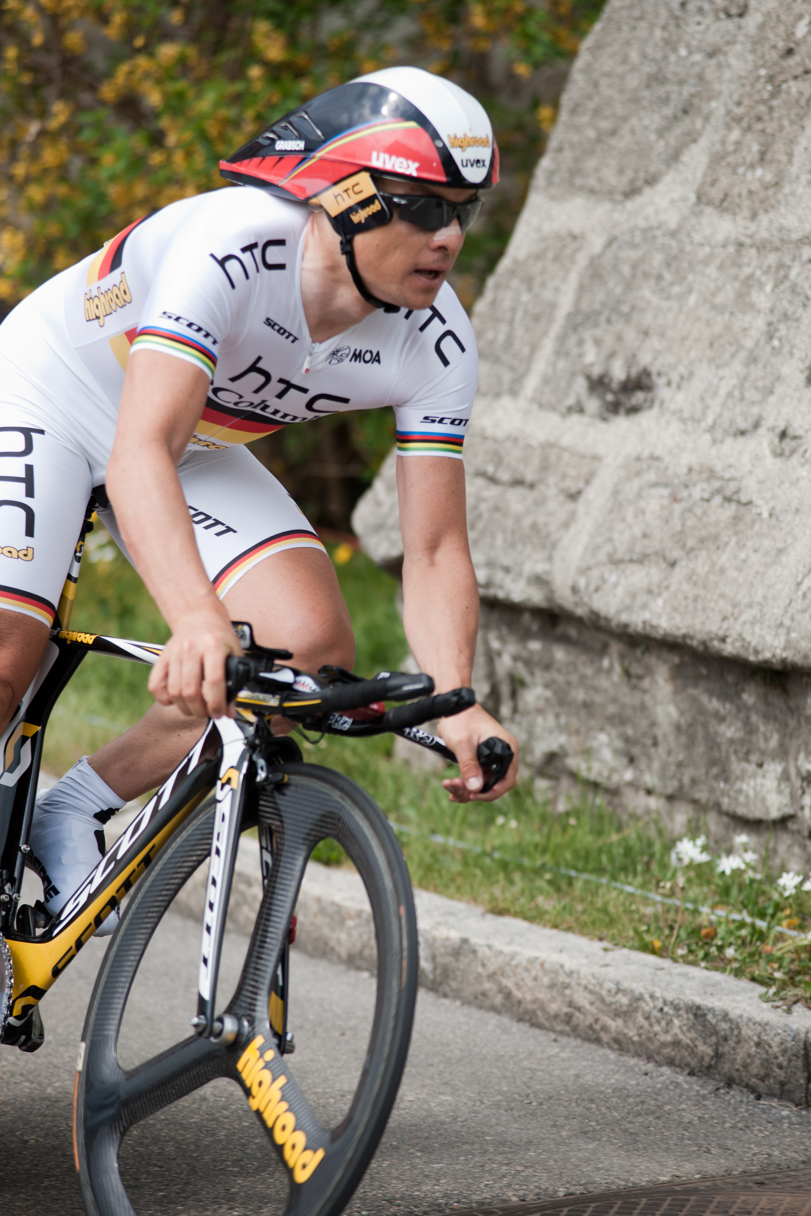 Bert Grabsch during the 3rd stage of the Tour de Romandie 2010.